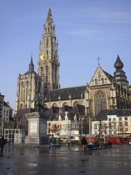 The Cathedral of Our Lady, Antwerp.